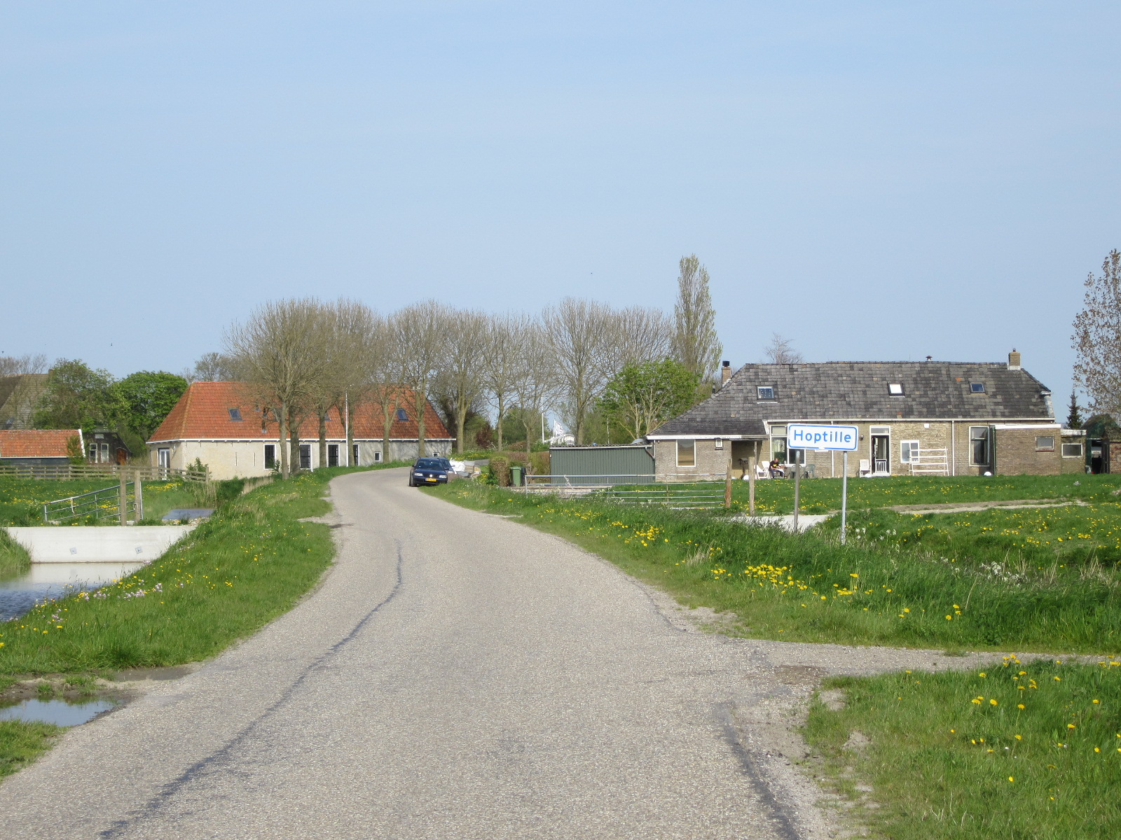 Hamlet Hoptille, county Friesland, The Netherlands.